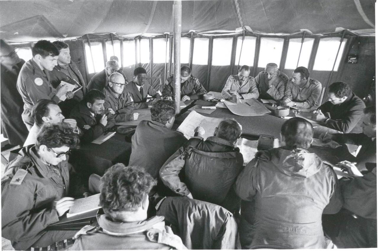 Egyptian-Israeli Military Talks Begin at Kilometer 101